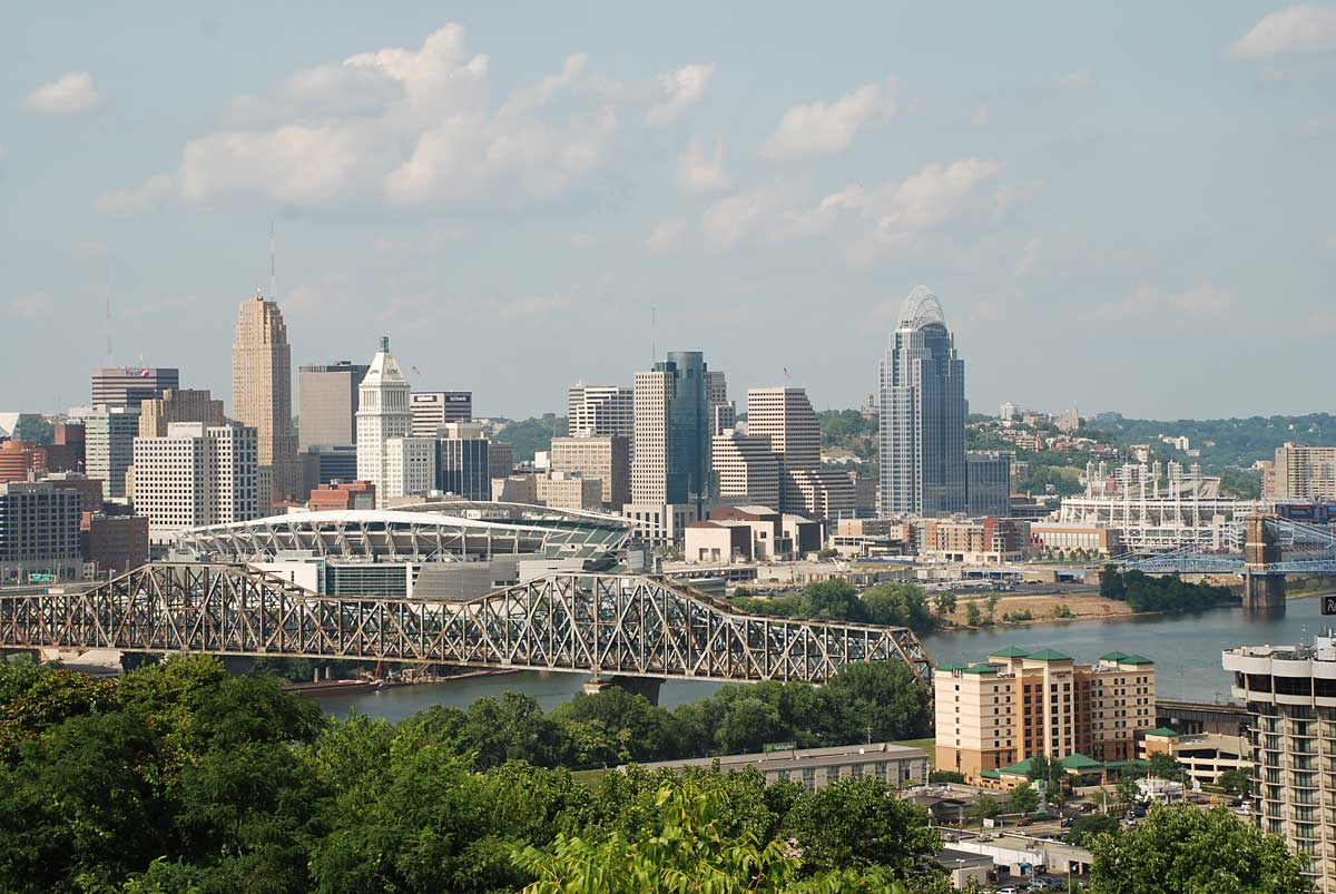 Downtown Cincinnati in Northern Kentucky